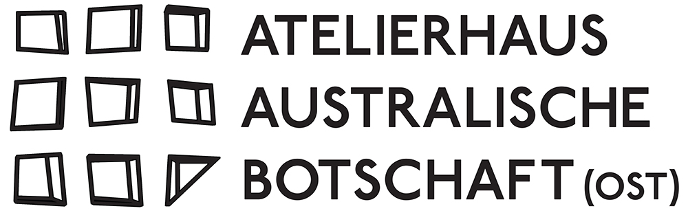 Logo Atelierhaus Australische Botschaft (Ost)